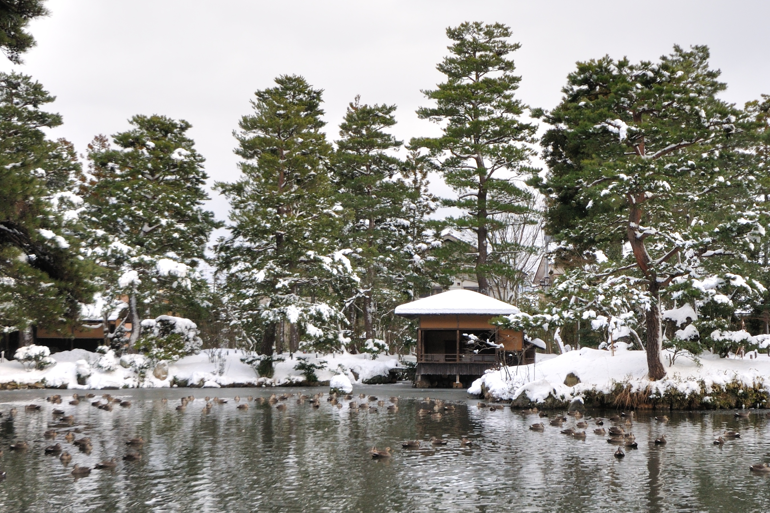 Photograph of Shimzu-en, pond and tea house, is japanese garden in Shibata City, Niigata Prefecture, Japan.